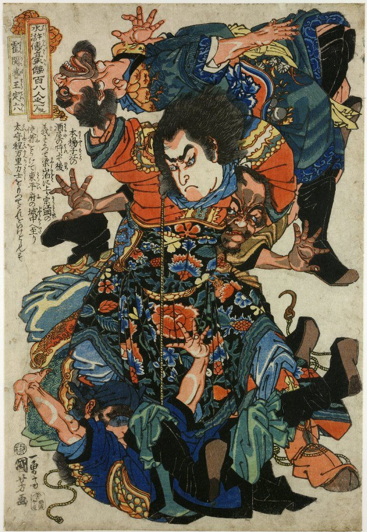 Wang Dingliu (王定六) tossing one of several opponents over his head.